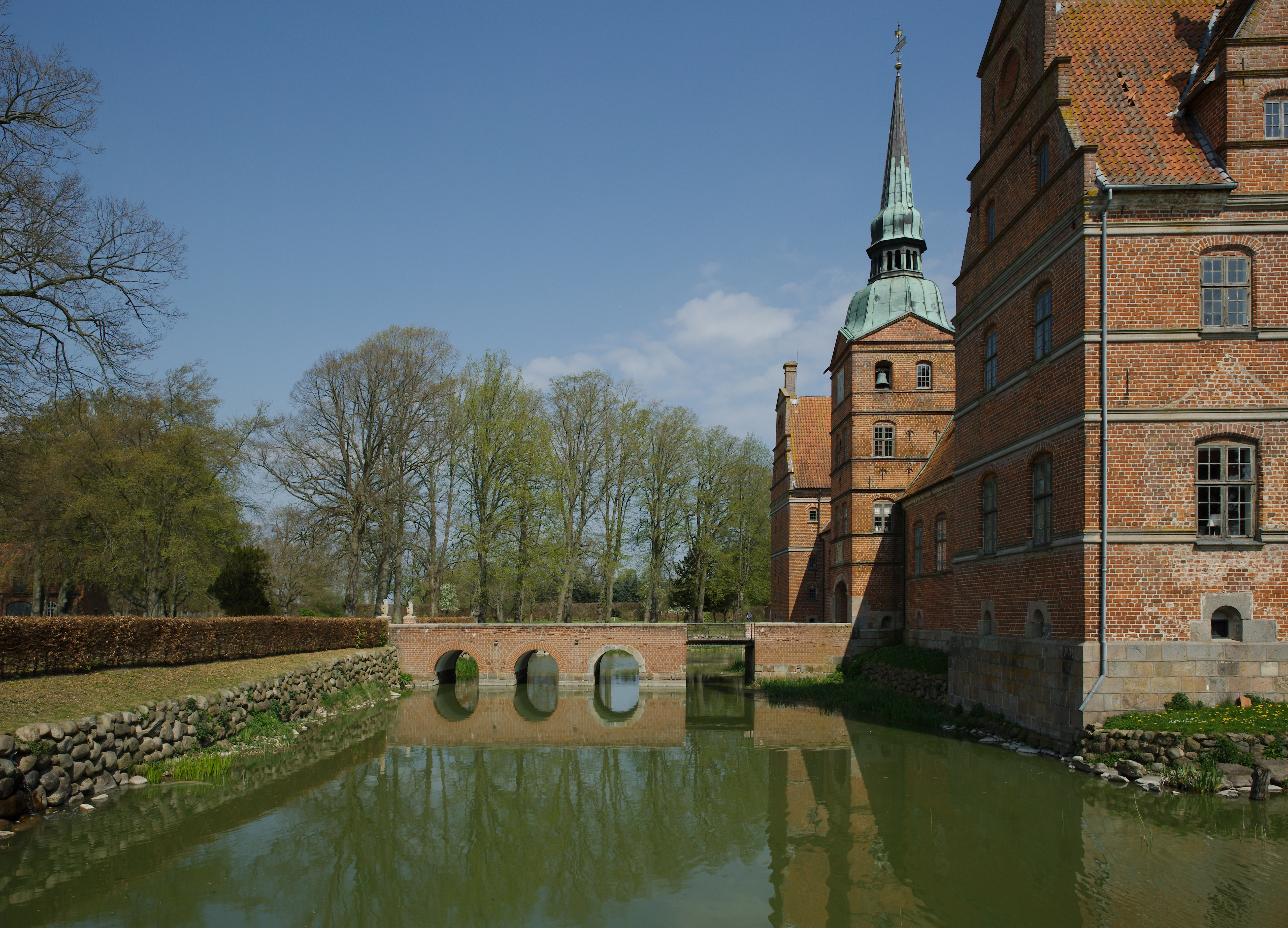 Moat at Rosenholm Castle